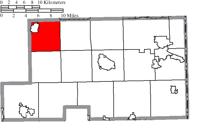 Map of the municipal and township boundaries of Mahoning County, Ohio, United States, as of the 2000 census, with the location of Milton Township highlighted. Township borders are shown only in unincorporated areas in order to differentiate incorporated and unincorporated areas more clearly.